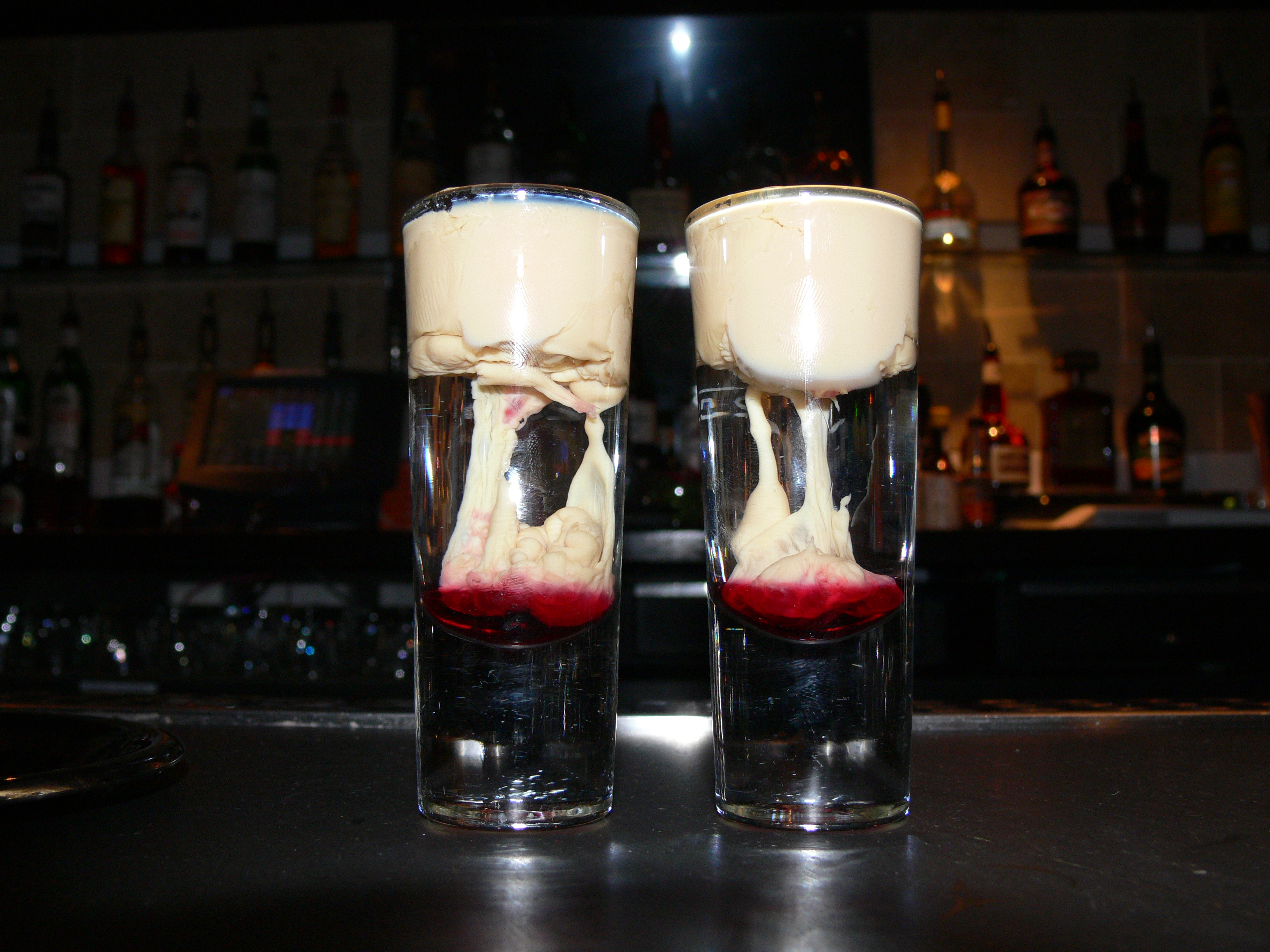 P1020647: "It's a brain haemorrhage. Made from Peach Schnapps, with bailey's poured over the top, then a dash of grenadine in the centre, with causes the bailey's to curdle into the schnapps (Although a real one, IMHO, should also have Blue Bols dribbled down the side, before the grenadine). It's a very sweet cocktail, best downed in one. The feeling as it slides down your throat is... interesting.... ;)" (DMC-FZ30, FZ30, Panasonic, cocktail, peach schnapps, grenadine, Baileys, alcohol, shot, shot glass, glass, Brain Hemorrhage, Bleeding Brain)